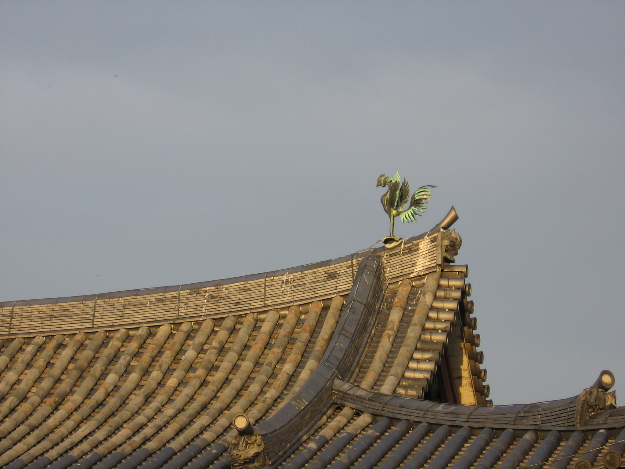 Picture made by Peter 111 06:46, 4 December 2005 (UTC) at Byodoin temple in october 2005